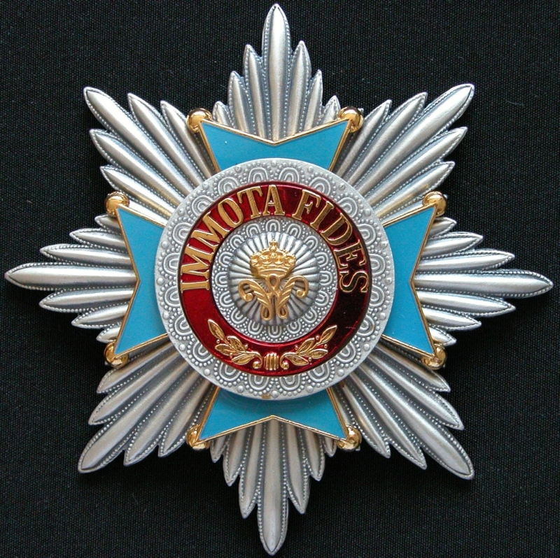 Brunswick, Germany: Copy of the medal of Henry the Lion.